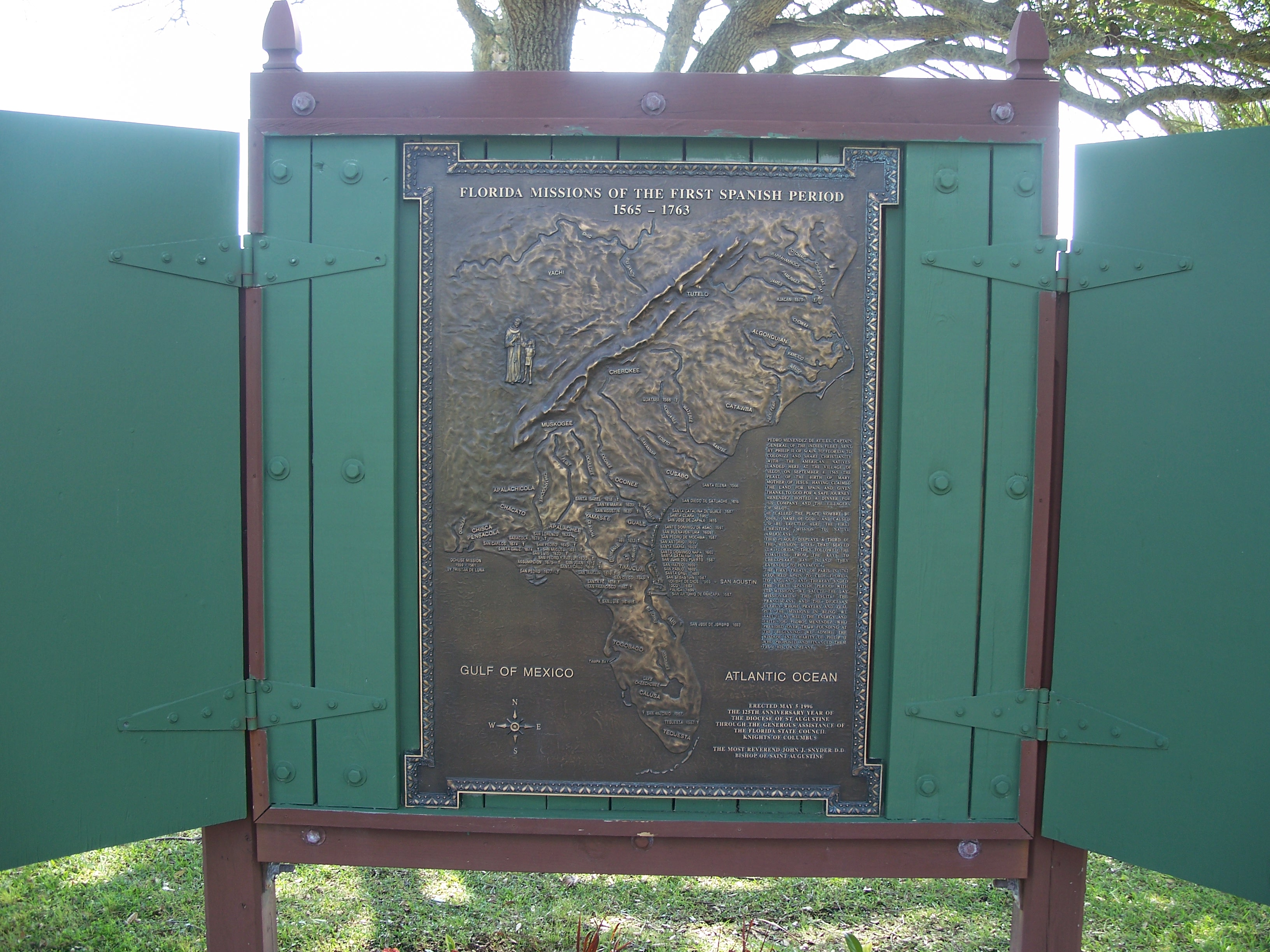 St. Augustine, Florida: Mission Nombre de Dios site. Approximate location of where Pedro Menéndez de Avilés landed in 1565, after which he founded St. Augustine. A plaque showing the locations of a third of the Spanish Missions, focusing on what is now the southeast United States. The plaque is titled Florida Missions of the First Spanish Period 1565 - 1763.